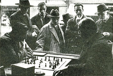 Chess in Café Stefanie